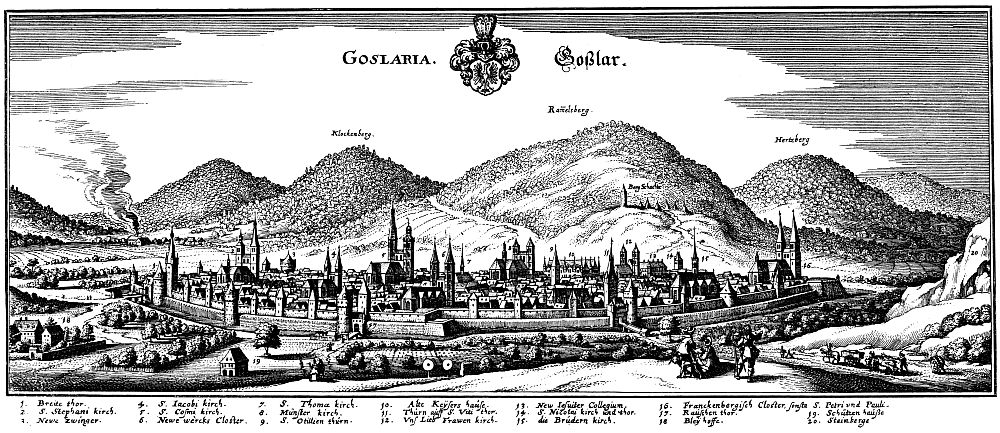 Goslar in 1640 from a copperplate by Merian